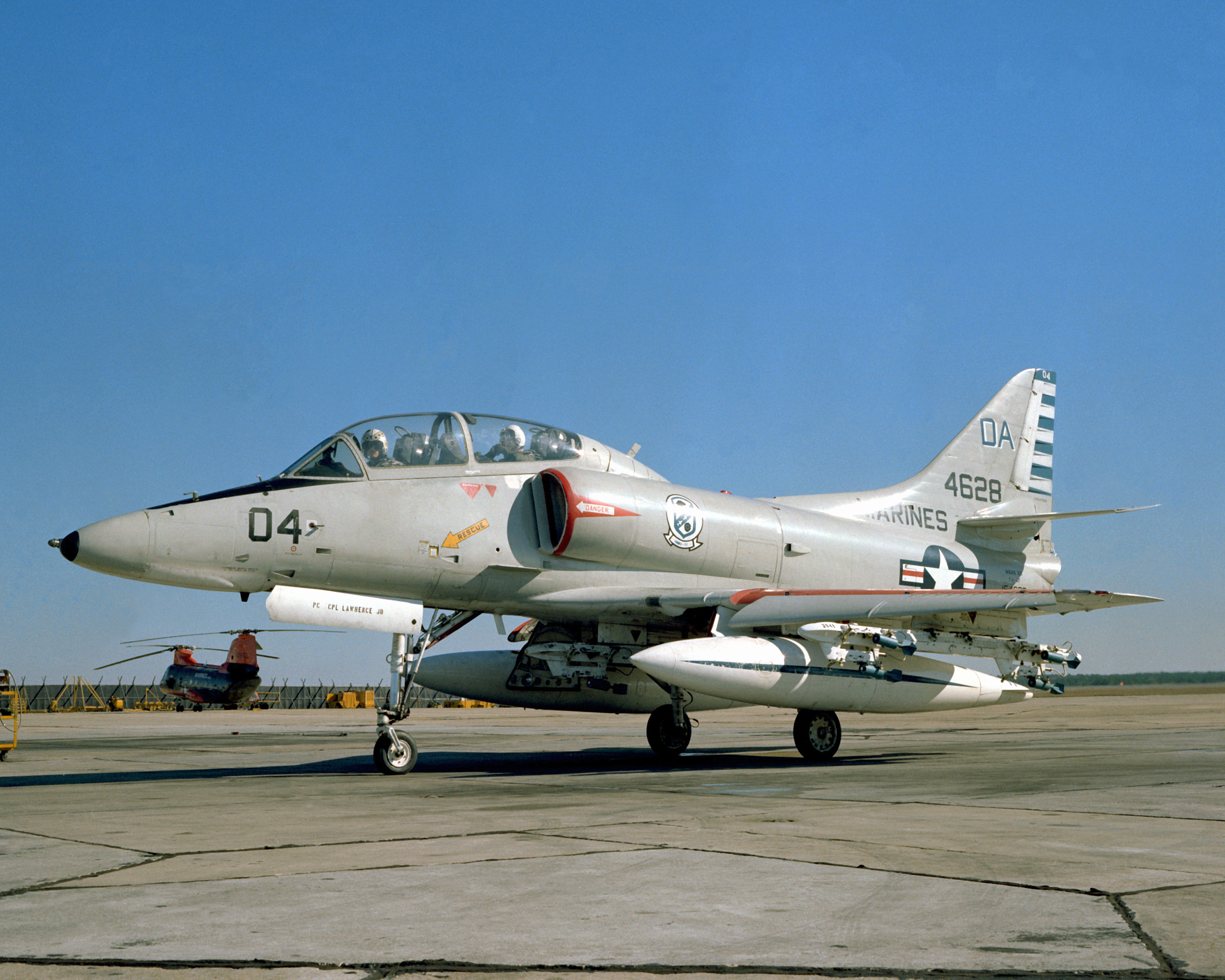 A U.S. Marine Corps Douglas TA-4F Skyhawk (BuNo 154628) from Headquarters and Maintenance Squadron 32 (H&MS-32) preparing to taxi from the flight line at Marine Corps Air Station Cherry Point, North Carolina (USA), on 1 December 1978.